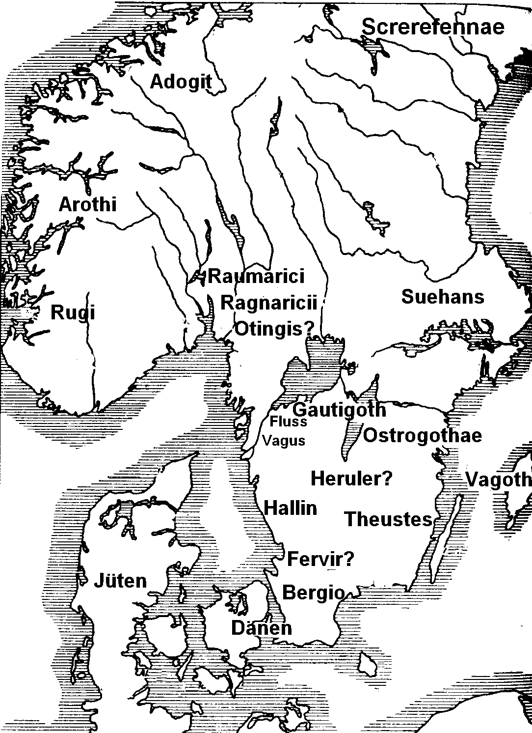 image from the German wikipedia article on Scandza - Image on the German Wikipedia listed it as a GDFL